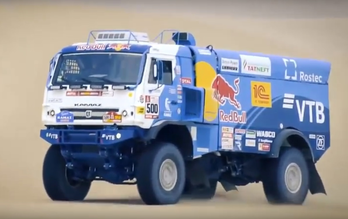 Dakar 2018. Perú. Kamaz of Eduard Nikolaev.